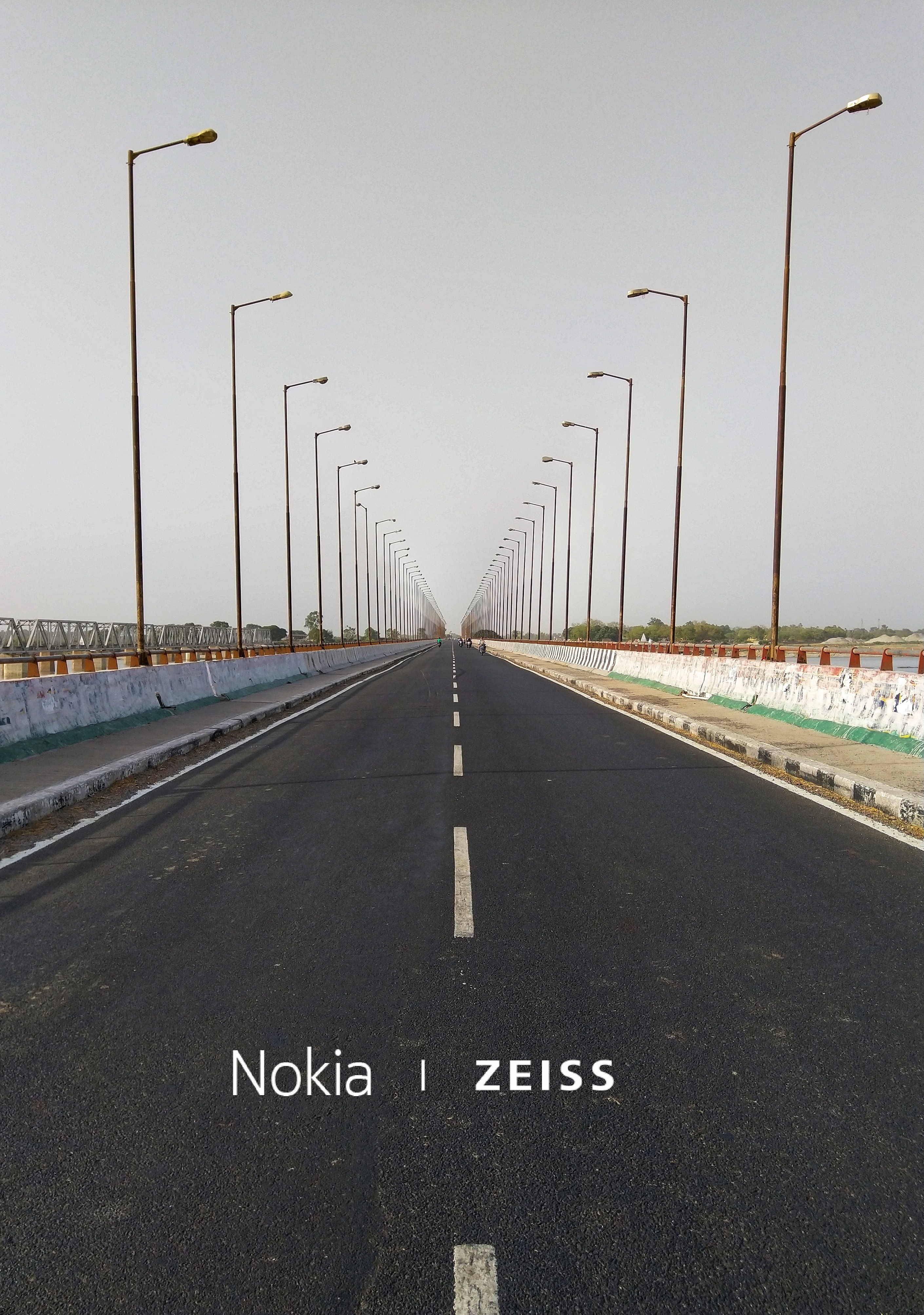 Bridge Of Kachla Ghat. Its closely situated to district Badaun of uttar pradesh. Building of this bridge has eased transportation and conveyance.